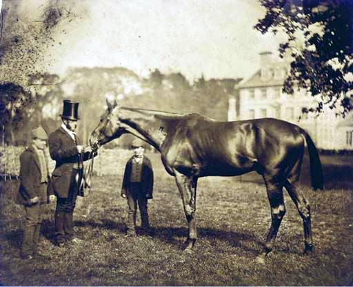 Wild Dayrell, Thoroughbred racehorse and winner of the 1857 Epsom Derby, with his owner the Earl of Craven. This is reported to be the earliest known photograph of an Epsom Derby winner. It is an albumin print.